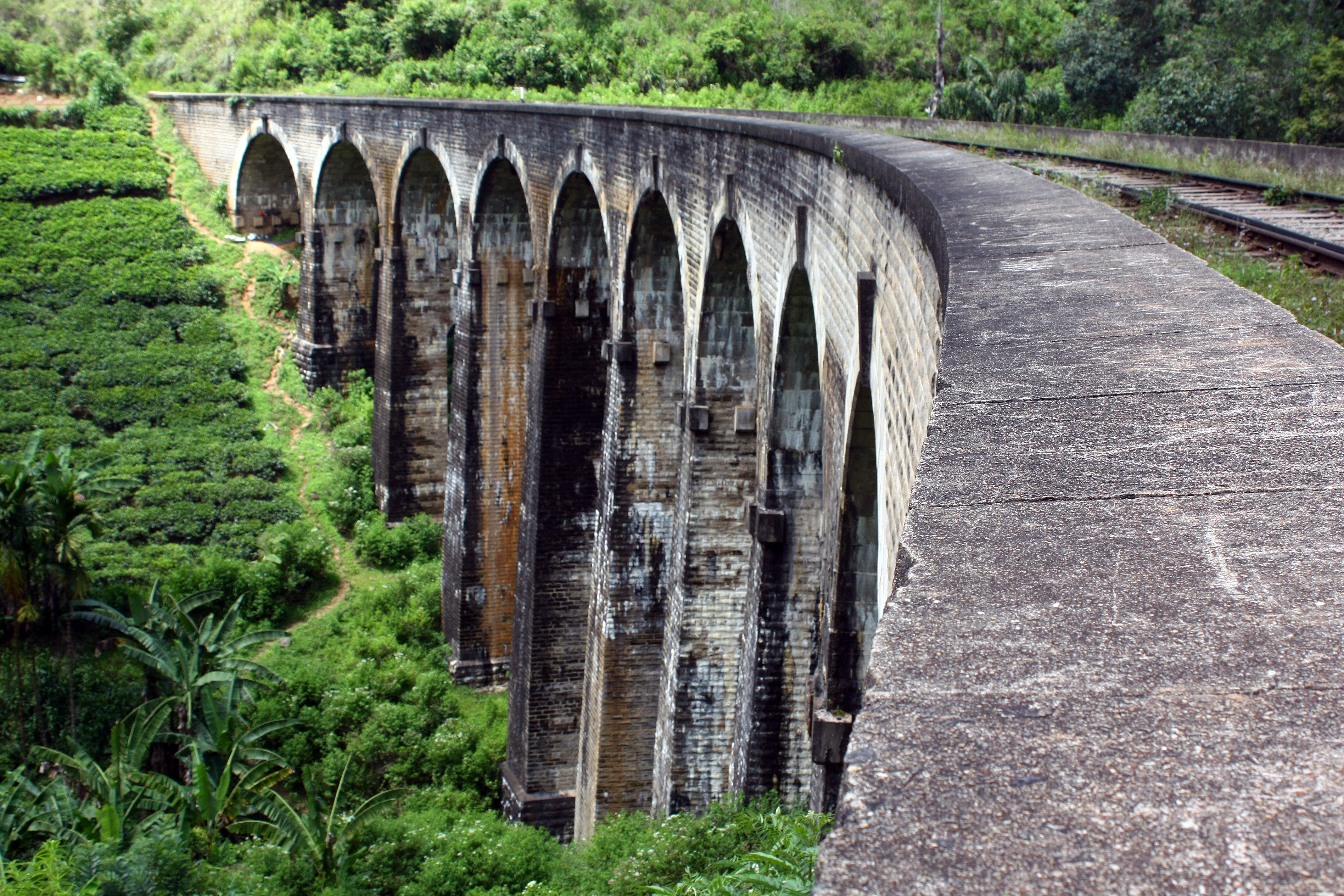 Nine Arches Bridge, Demodara, Sri Lanka